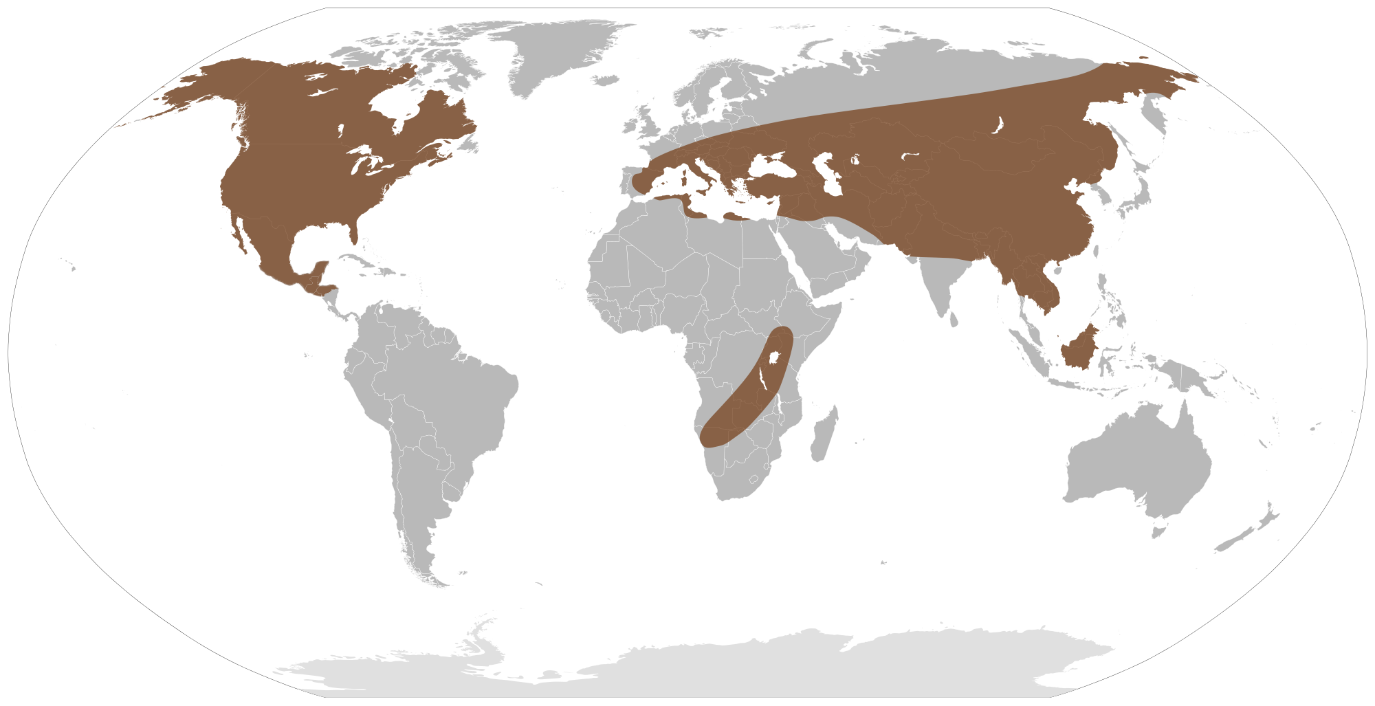 The distribution of the extinct family Mammutidae, according to [1] and [2], corrected to reflect their presence in Honduras and absence from South America.